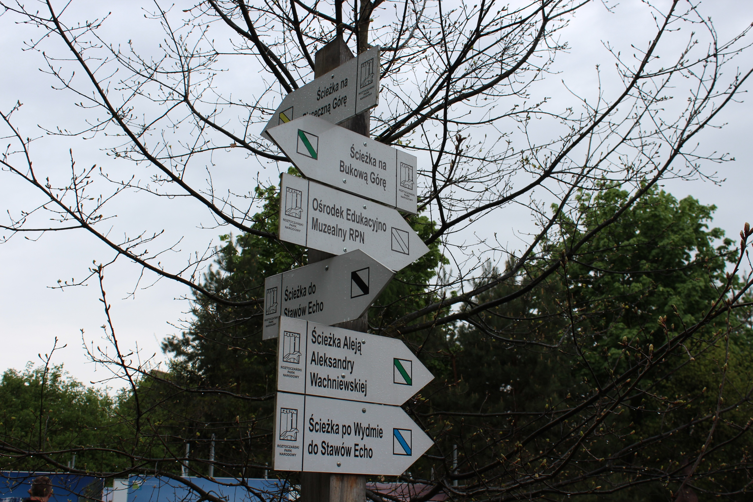 Roztocze National Park Educational Center and Museum